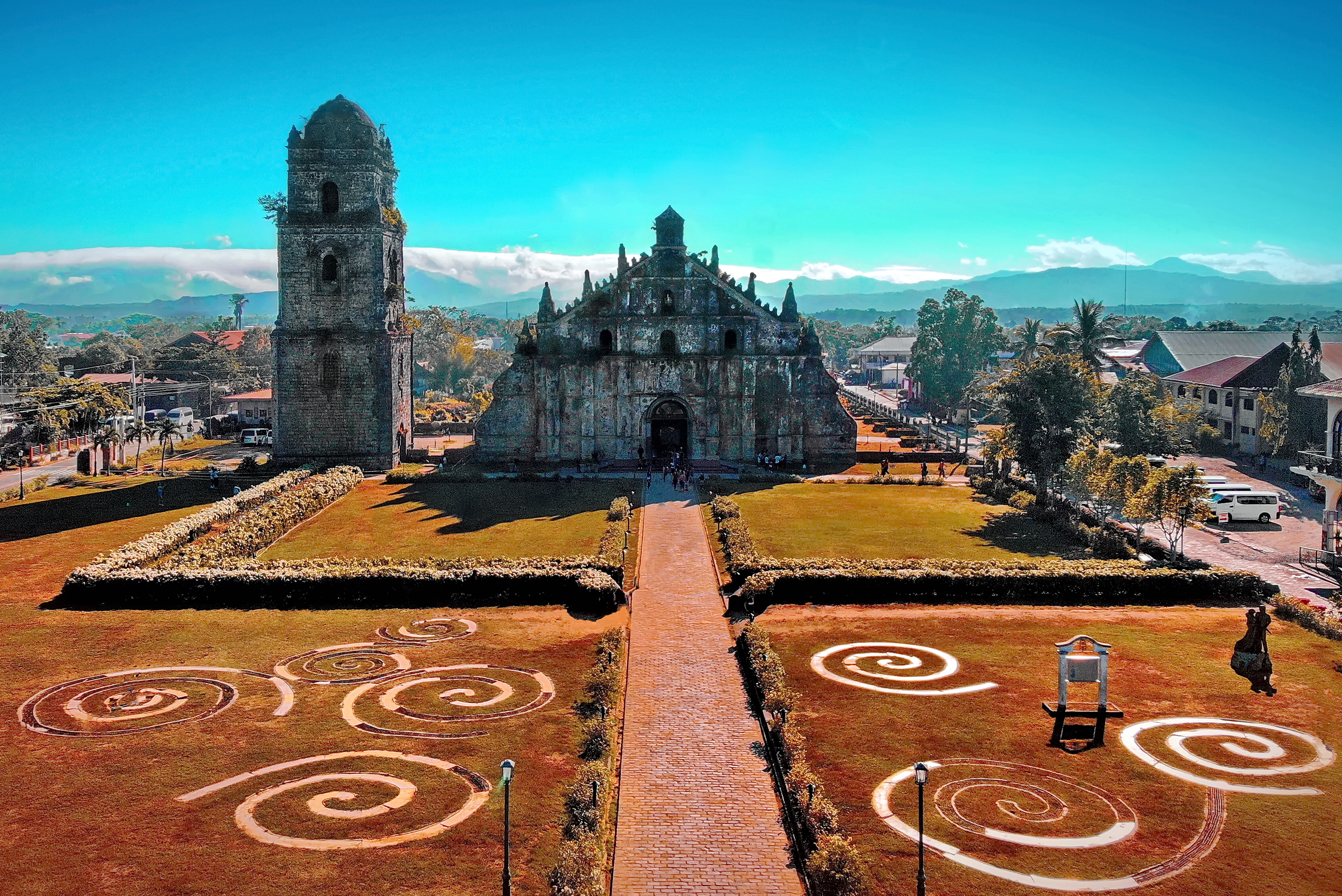 Located in the town of Paoay, Ilocos Norte in the Philippines, the church is one of the four churches in the Philippines designated as a UNESCO World Heritage Site in 1994. Finished in 1710, it was inaugurated only on February 28, 1896. It was destroyed by an earthquake while being constructed in 1706 and in 1927. Filipino: Matatagpuan sa bayan ng Paoay, Ilocos Norte sa Pilipinas, ang simbahan ay isa sa apat na simbahan sa Pilipinas na itinuring UNESCO World Heritage Site noong 1994. Natapos noong 1710, pinasinayaan lamang ito noong Pebrero 28, 1896. Nasira ito ng lindol habang ginagawa noong 1706 at noong 1927.